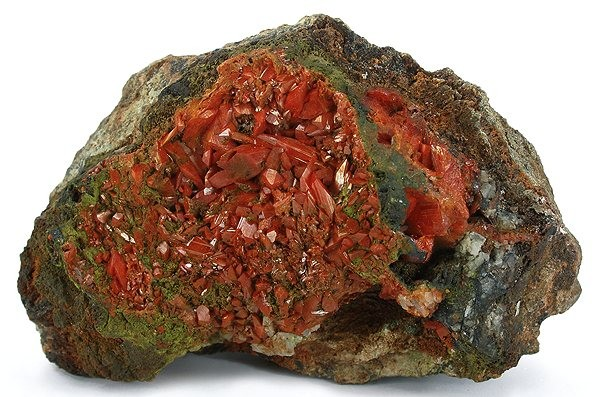 Crocoite, Vauquelinite Locality: Berezovskoe Au Deposit (Berezovsk Mines), Berezovskii (Berezovskii Zavod), Ekaterinburg (Sverdlovsk), Ekaterinburgskaya (Sverdlovskaya) Oblast', Middle Urals, Urals Region, Russia (Locality at ) Size: 11.5 x 7.1 x 6.0 cm. This large specimen is an excellent, important example of crocoite from the type locality for the species. Note the robust, sharp, stereotypic crystal habit so different from that which we normally see in the far more common Australian material. These stand out, dramatically, from most crocoite you will see from Australian localities. The crystals are to 1.4 cm, on matrix. Also, you have rich pistachio-green druse of the very rare phosphate-chromate Vauquelinite all over the specimen. Discovered in the early 1800s, these are some of the oldest well-studied lead mineral species and both are lead chromates. Ex. Ed N. Harrison Collection.